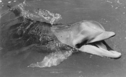 Publicity photo from the televison program Flipper.